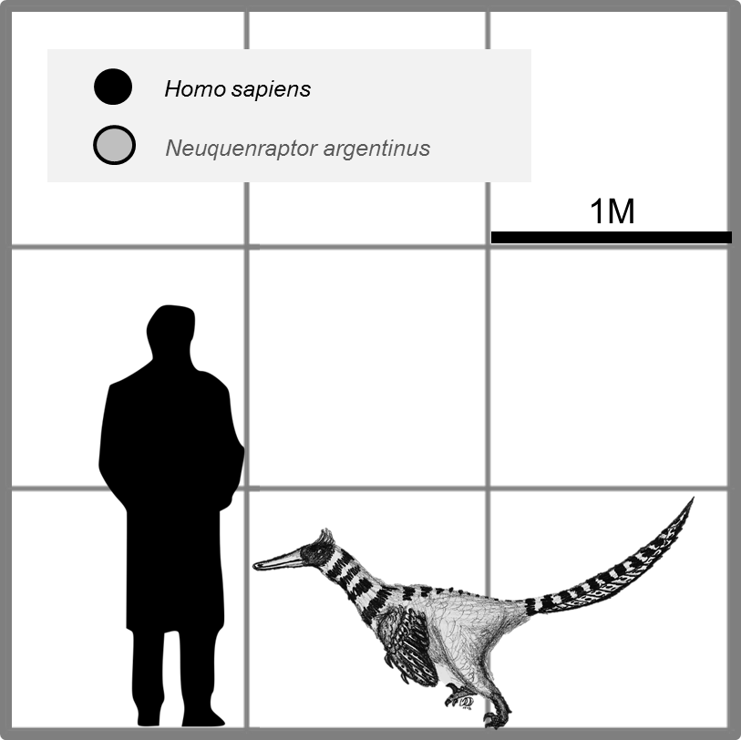 Size comparison of an adult Neuquenraptor with human being.